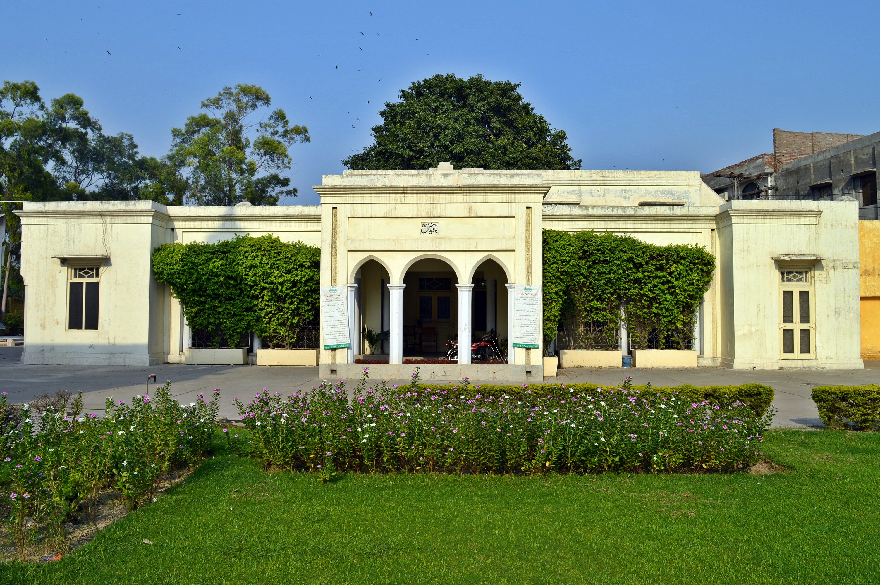 Javed Manzil This is a photo of a monument in Pakistan identified as the PB-66